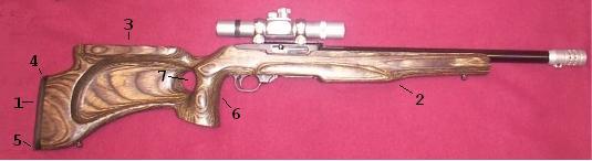 Ruger 10/22 with Fajen thumbhole silhouette stock. A gunstock is broadly divided into two parts (see above). The rear portion is the butt (1) and front portion is the fore-end (2). The butt is further divided into the comb (3), heel (4), toe (5), and grip (6). The stock pictured is a thumbhole (7) style